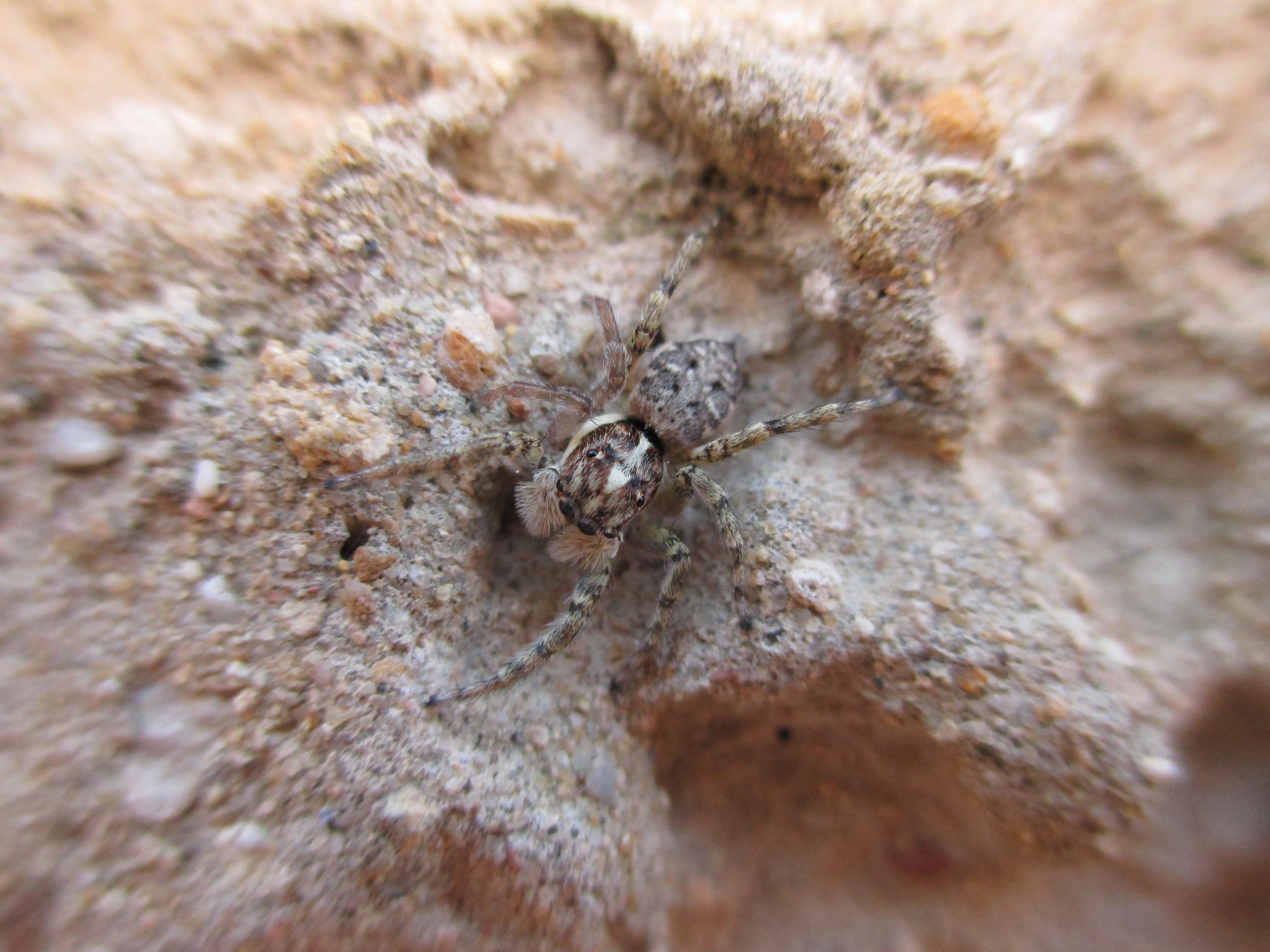 Arachnida on the wall